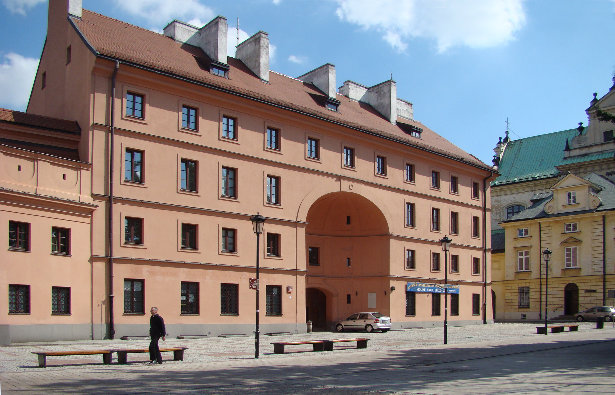 Dziekanka students' home, Krakowskie Przedmieście, Warsaw